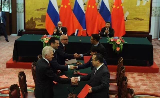 The signing of a memorandum understanding between Titan Sports and Sovetsky Sport